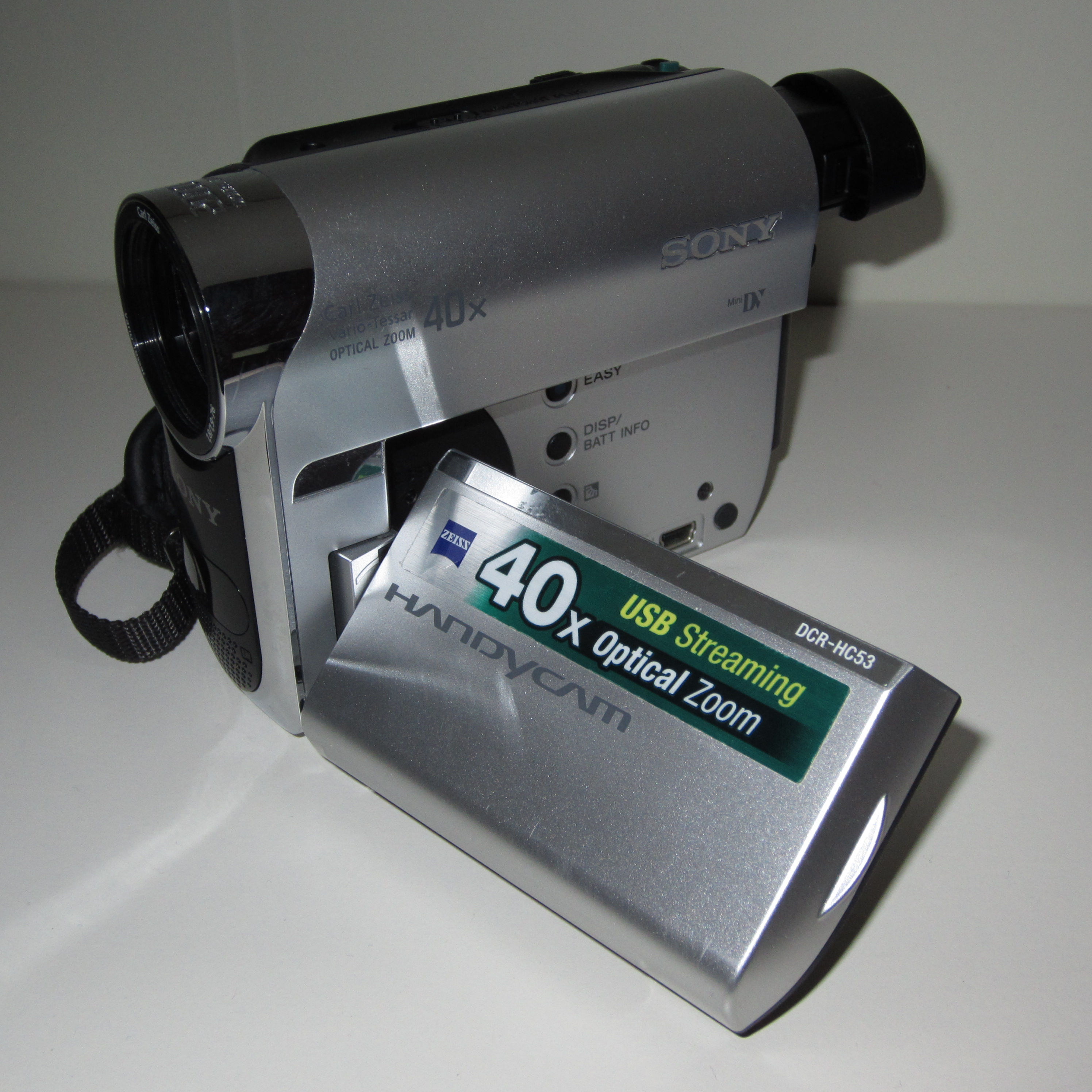 Sony Handycam DCR-HC53E